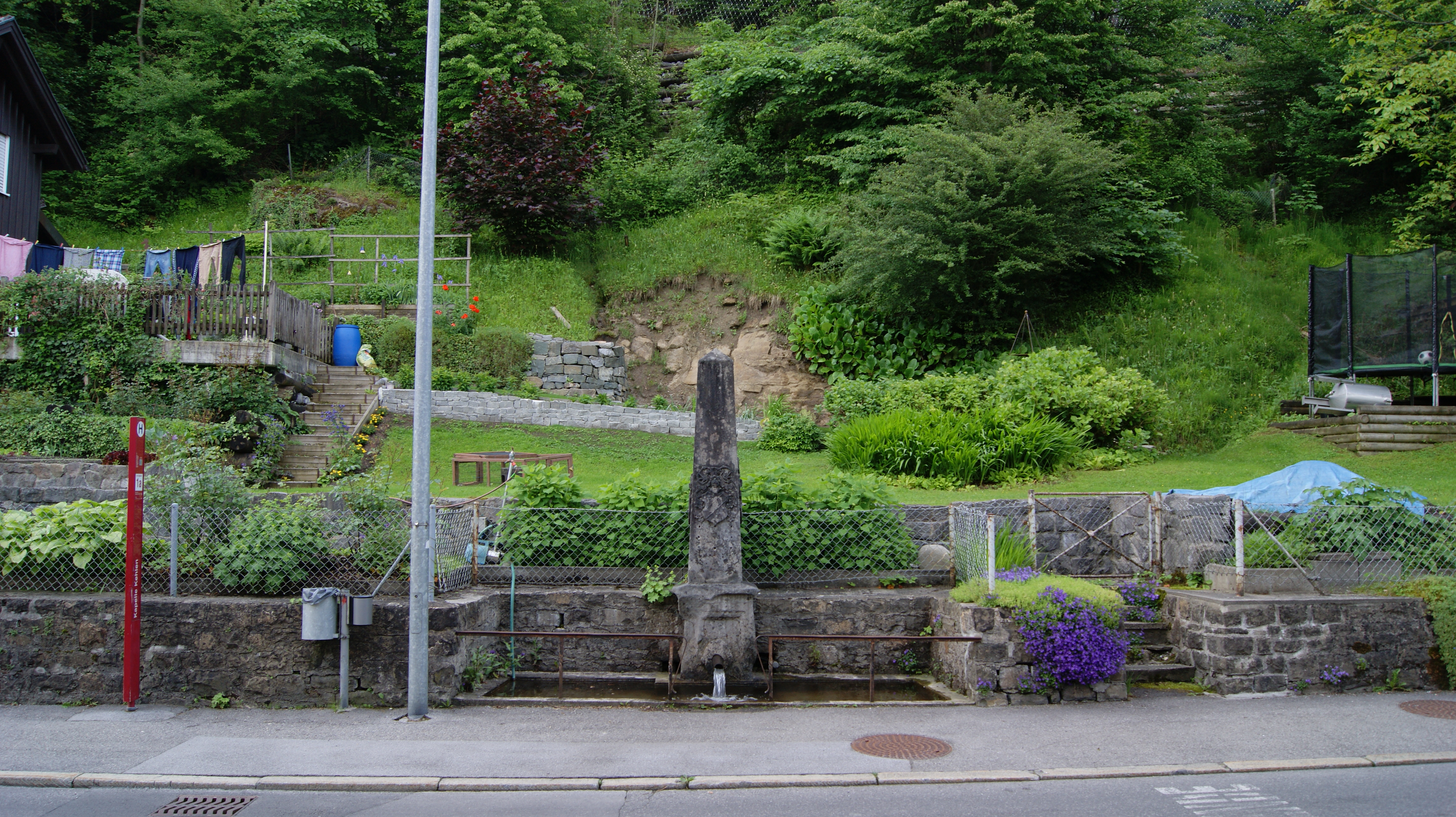 Russians fountain (also French fountain or Kehler fountain) in Dornbirn, Vorarlberg, Austria. The unengaged memorial-column by the fountain remember about the passage of Russian troops 1799 in Dornbirn. It was founded in 1870 by Count de Breda.